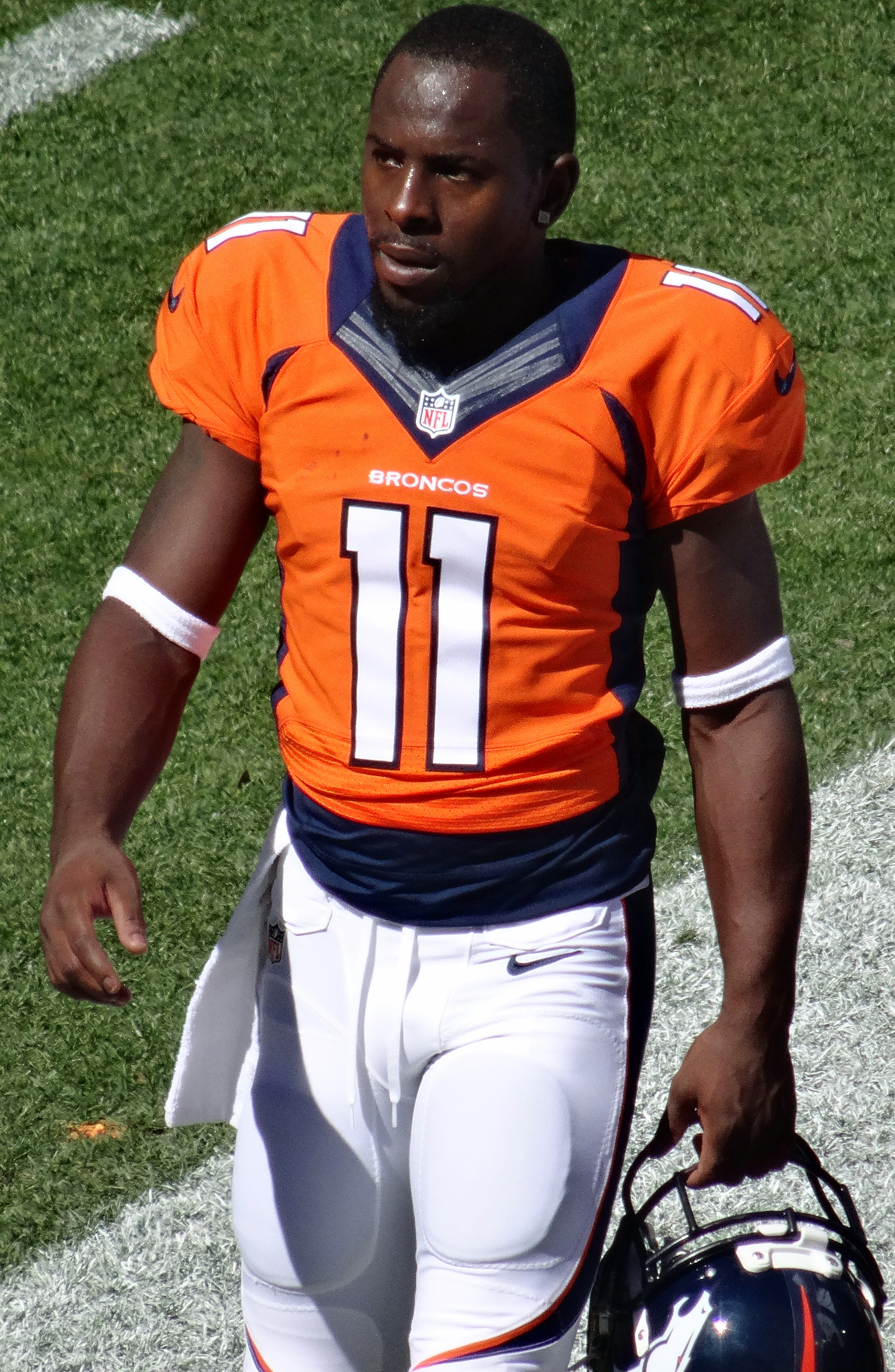 Trindon Holliday, a player on the National Football League.